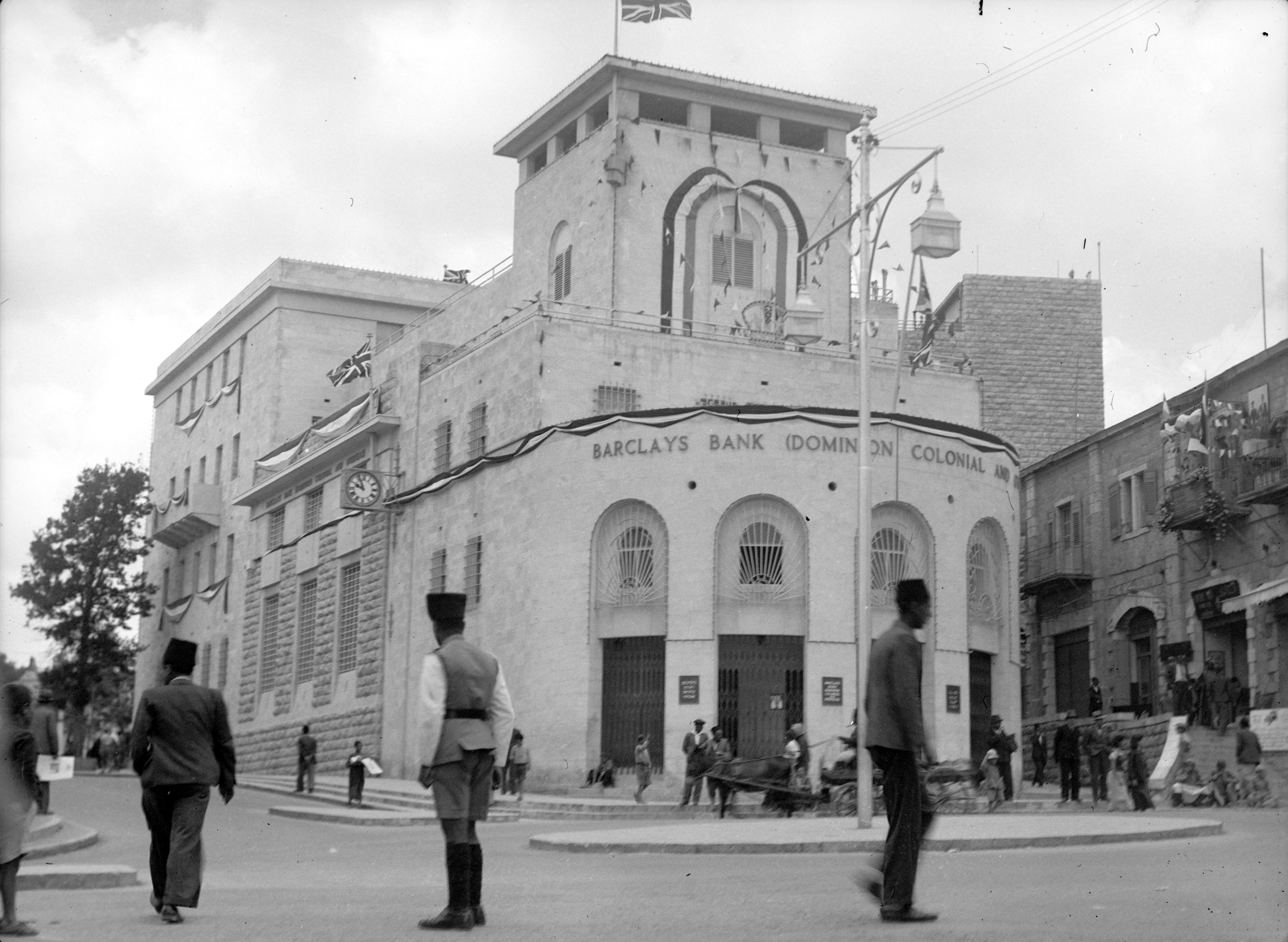 Coronation. King George VI. Decorations, day scenes (King David, Barclays, Julian Day, Fast Hotel). Summary: Photo shows Barclay's Bank decorated with British flags and bunting.